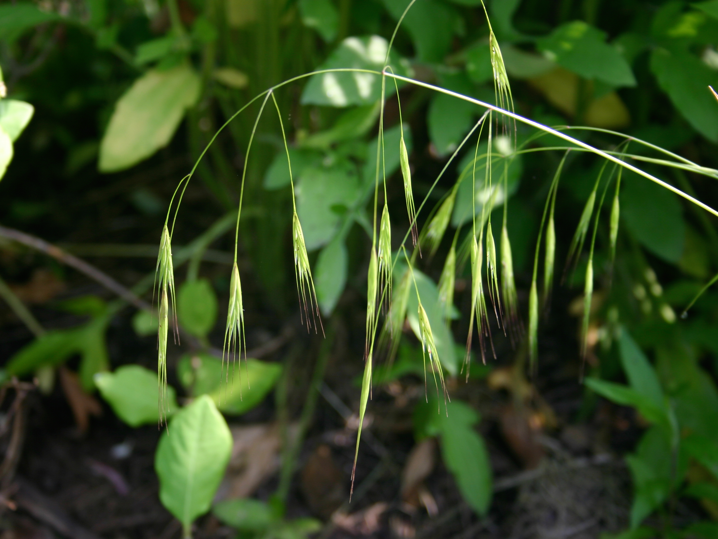 Schizachne purpurascens (Torr.) Swallen - false melic